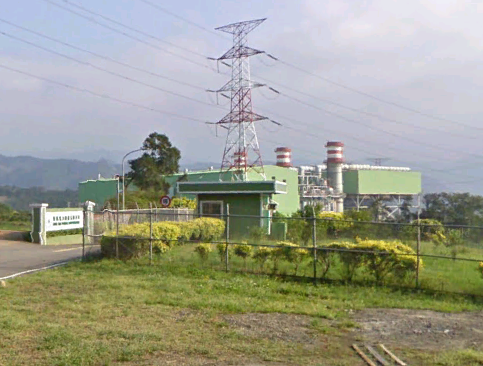 Hsintao Gas-Fired Power Plant, Guanxi Township, Hsinchu County, Taiwan